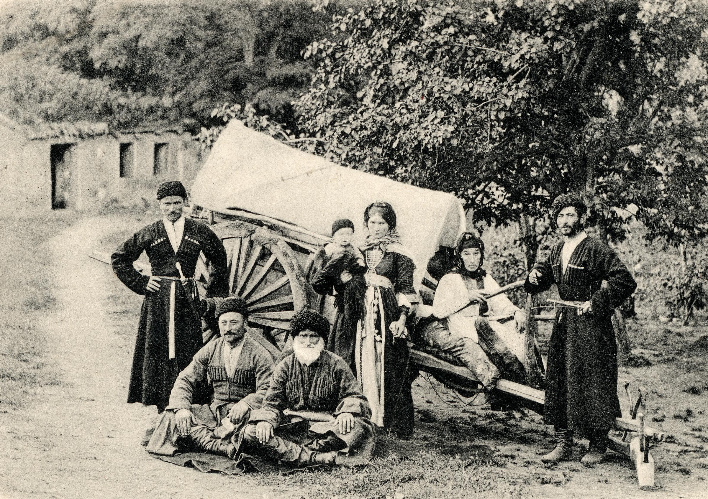 A Kabardin family. "Famille kabardine – Types de Caucase".